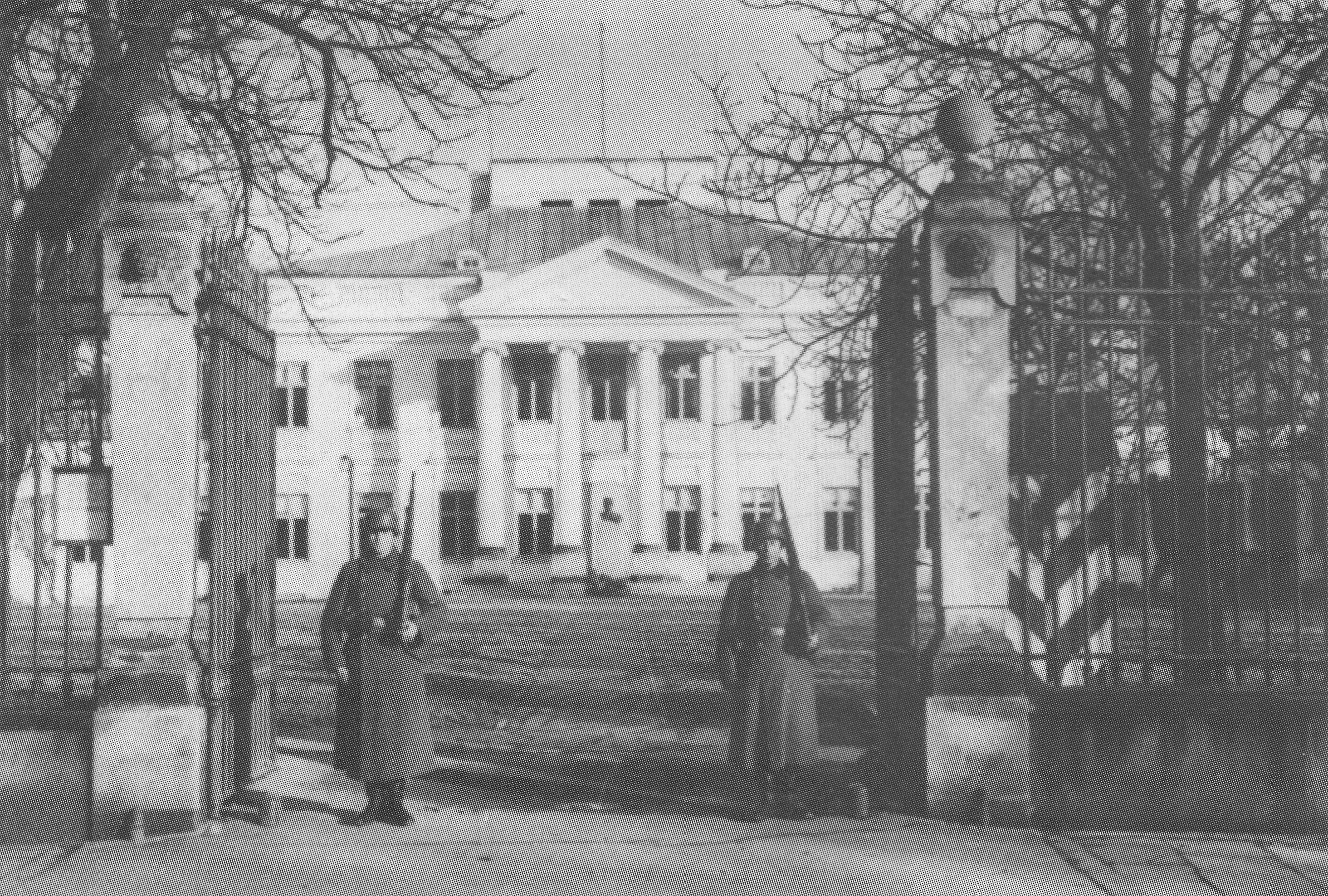 Belweder in Warsaw during German occupation